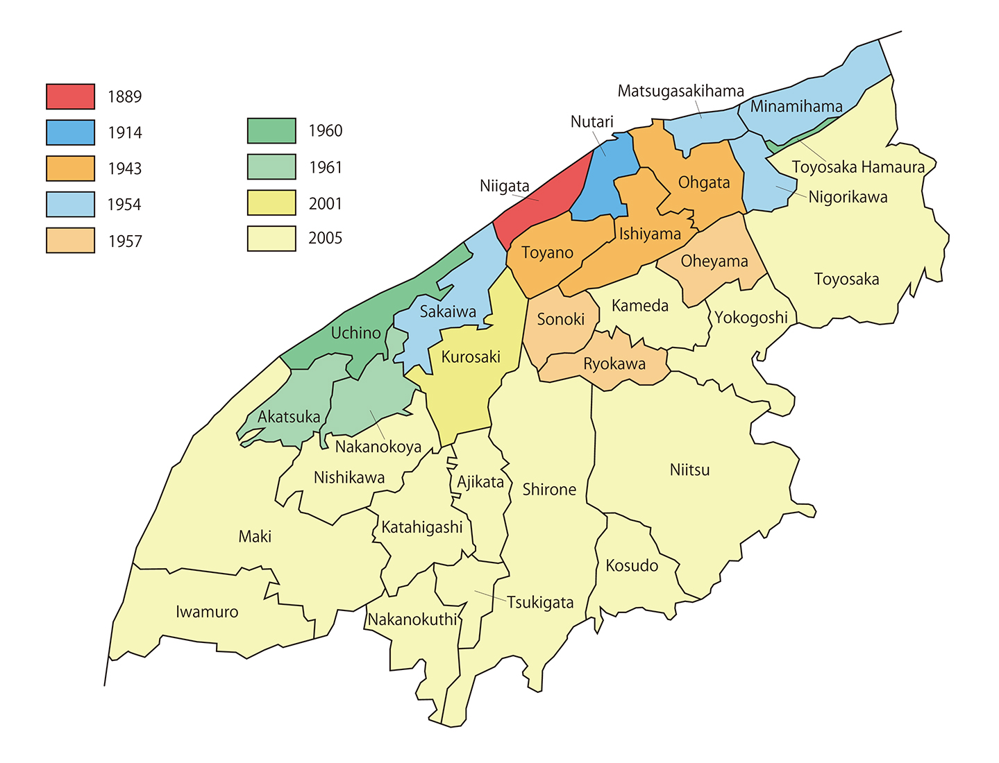 Image that showed details of amalgamation of Niigata Prefecture Niigata City from 1889 to present.